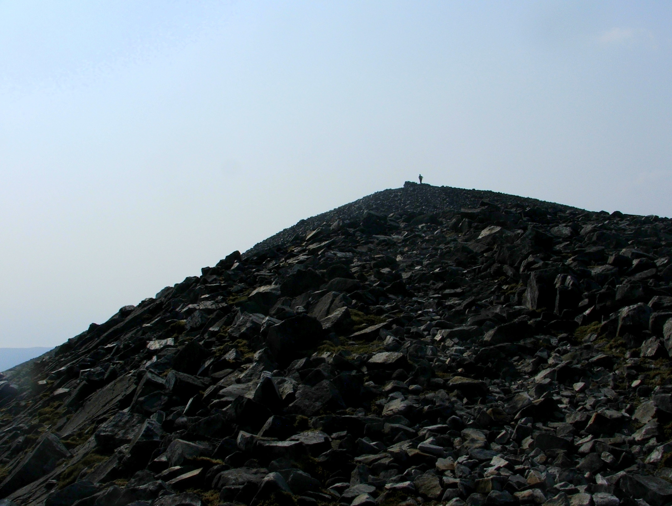 The summit of Beinn an Òir, the highest Pap of Jura